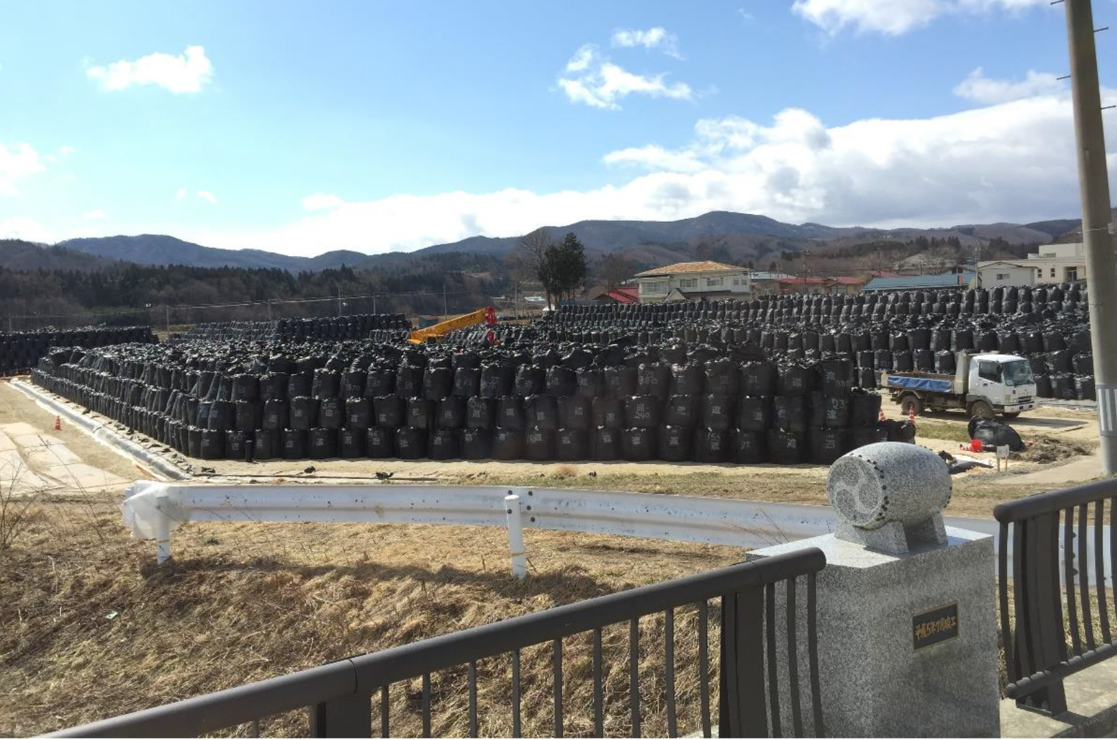 Temporary storage facilities for radioactive decontamination waste in Iitate village, in the Fukushima Prefecture, north-west from the Fukushima Daiichi nuclear power plant. Figure source: Evrard, O., Laceby, J. P., and Nakao, A. 2019. Effectiveness of landscape decontamination following the Fukushima nuclear accident: a review. Soil, vol. 5, p. 333–350. Published under under the Creative Commons Attribution 4.0 License.